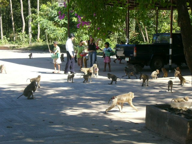 Semi wild monkeys at Wat Tham Kham (วัดถ้ำขาม) near Sakon Nakhon, Northeastern Thailand. Children sell monkey food to visitors (one girl and one boy).